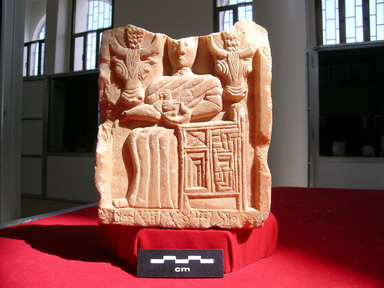 An ancient Persian stone relief on display. At Bainon Museum — in Yemen.